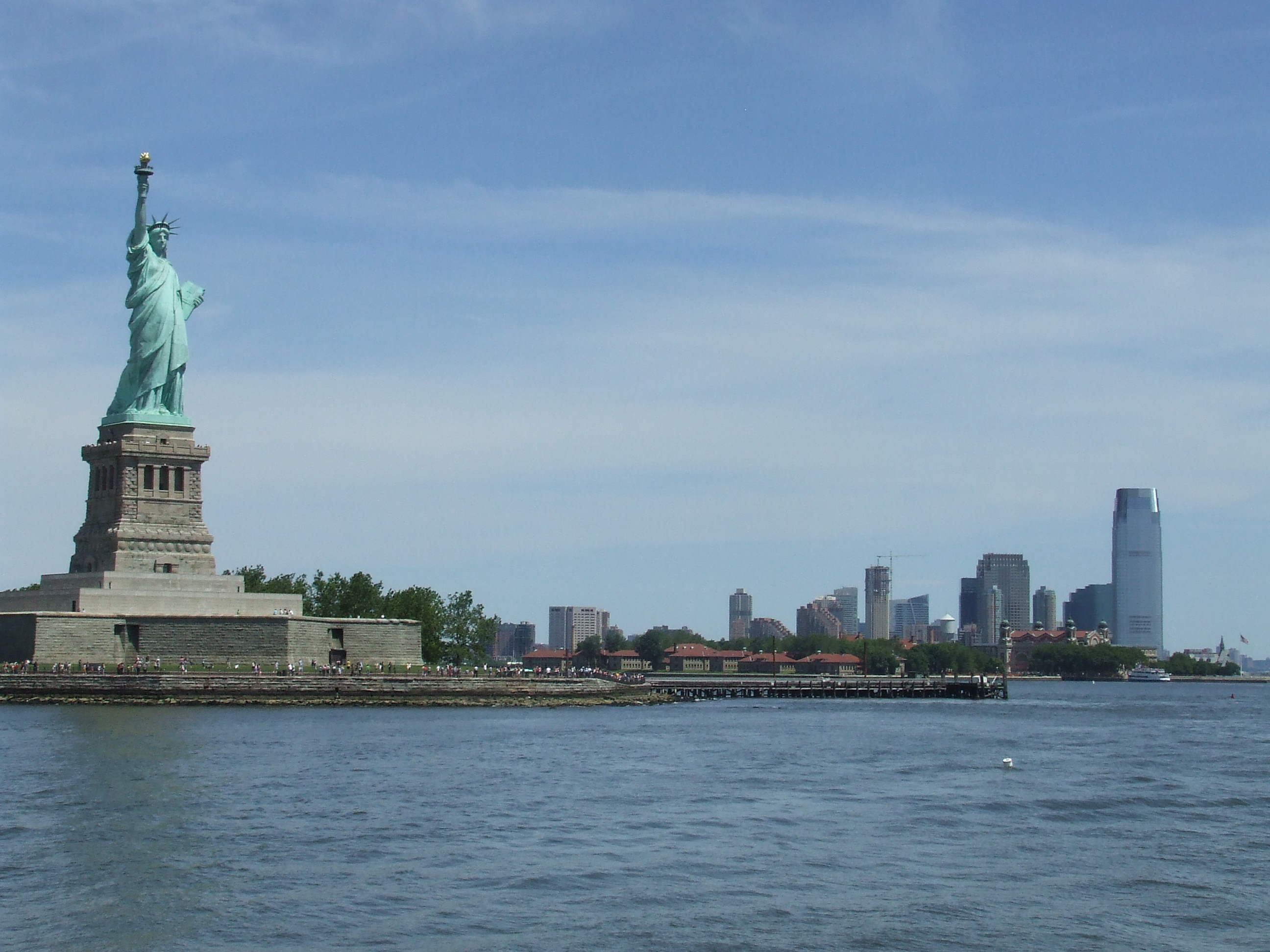 Looking north at JC and Statue of liberty